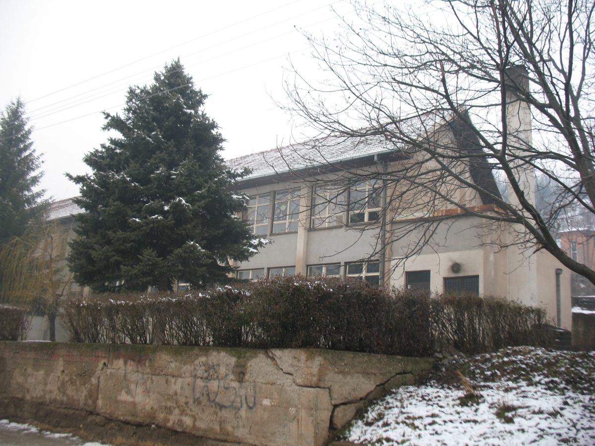 School in Jelašnica in Niška Banja municipality,Serbia.